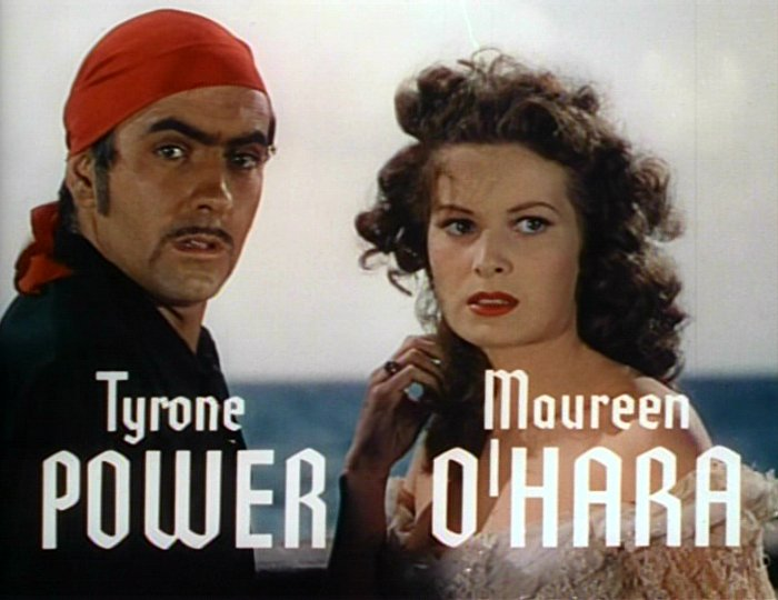 Tyrone Power and Maureen O'Hara in a screenshot from the trailer for the film The Black Swan.